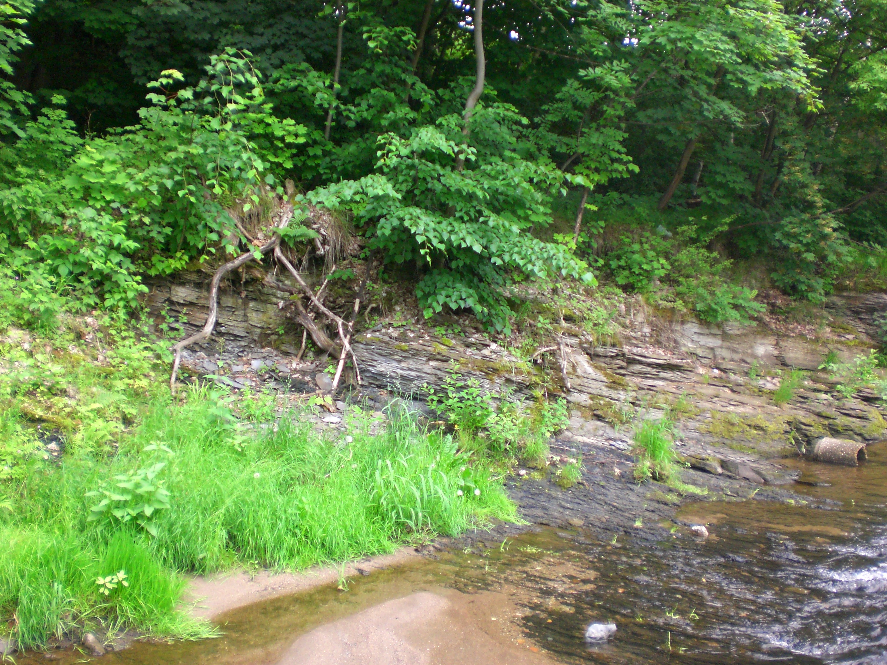 Outcrop of the Rußkohlenflöz (lit.: "Smut coal seam") on the west bank of the Zwickauer Mulde river. Zwickau-Cainsdorf, Saxony, Germany.